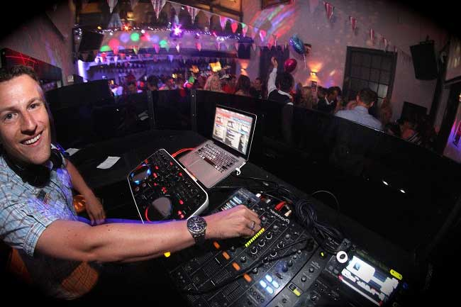 Andrew Marston DJing